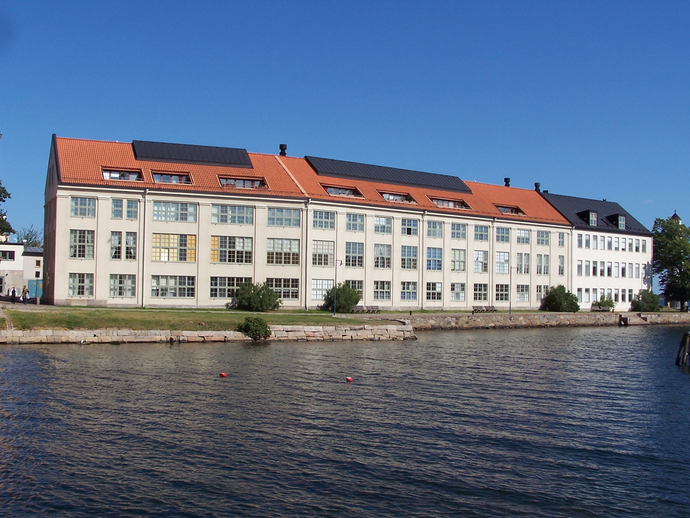 Clothing workshop, Stumholmen, Karlskrona